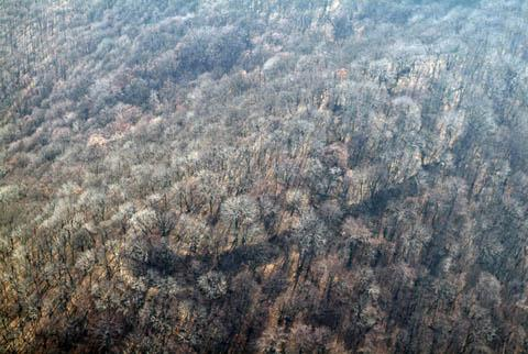 Felsőtárkány, Hungary